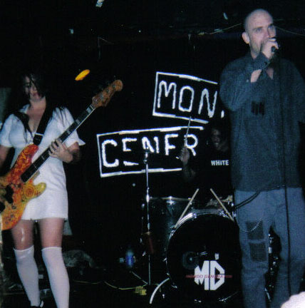 I took this photo on November 14, 2003. I allow it's use. Mondo Generator (sometimes known as Nick Oliveri And The Mondo Generator), an American metal/punk hybrid band founded in 1997 by Nick Oliveri.